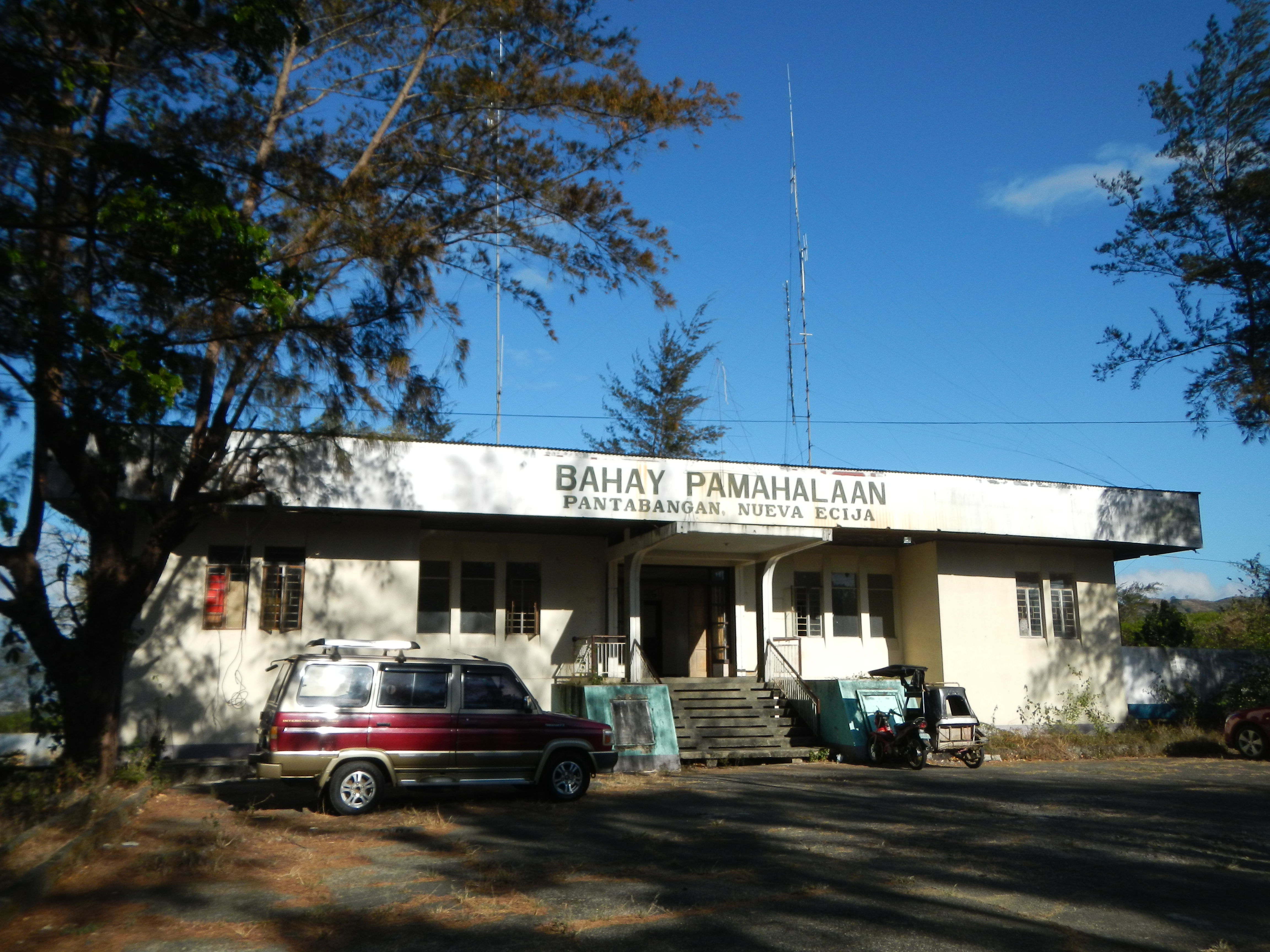 Pantabangan, Nueva Ecija[1] [2]Land Area: 392.56 km² ZIP Code: 3124 Coordinates: 15°49'22"N 121°9'22"E[3][4] Mayor Romeo V. Borja, Sr. V.Vice-Mayor,Romeo Jr R. Borja.[5] Landmarks: St. Andrew the Apostle Parish Church of Pantabangan, Old and New Town Hall, Onion plantations; The serene blue-sky glimpses the 1.61 kilometer long dam enveloped by the picturesque view of Sierra Madre Mountains. The dam's clear water with an average yearly in the sanctuary of tropical marine life and an inviting site for jetskiing and fishing. Pantabangan offers not only its enormous man-made lake but also its guesthouse, the Best View Hotel and Restaurant. With its Spa and Beauty Cottage Salon, swimming pool, tennis courts and water sports amenities, the tourists and guest enjoy the luxury and beauty of the placid scenery of the dam. [6][7] [8]First Gen Hydro Power Corporation (FG Hydro) owns and operates the Pantabangan-Masiway Hydroelectric Complex (PMHEP). The Pantabangan and Masiway plants are cascading hydroelectric power plants located in Nueva Ecija. Commissioned in 1977 and 1981, respectively, the Pantabangan and Masiway plants are part of a multipurpose hydro complex that supplies irrigation water for the vast rice fields of Nueva Ecija.